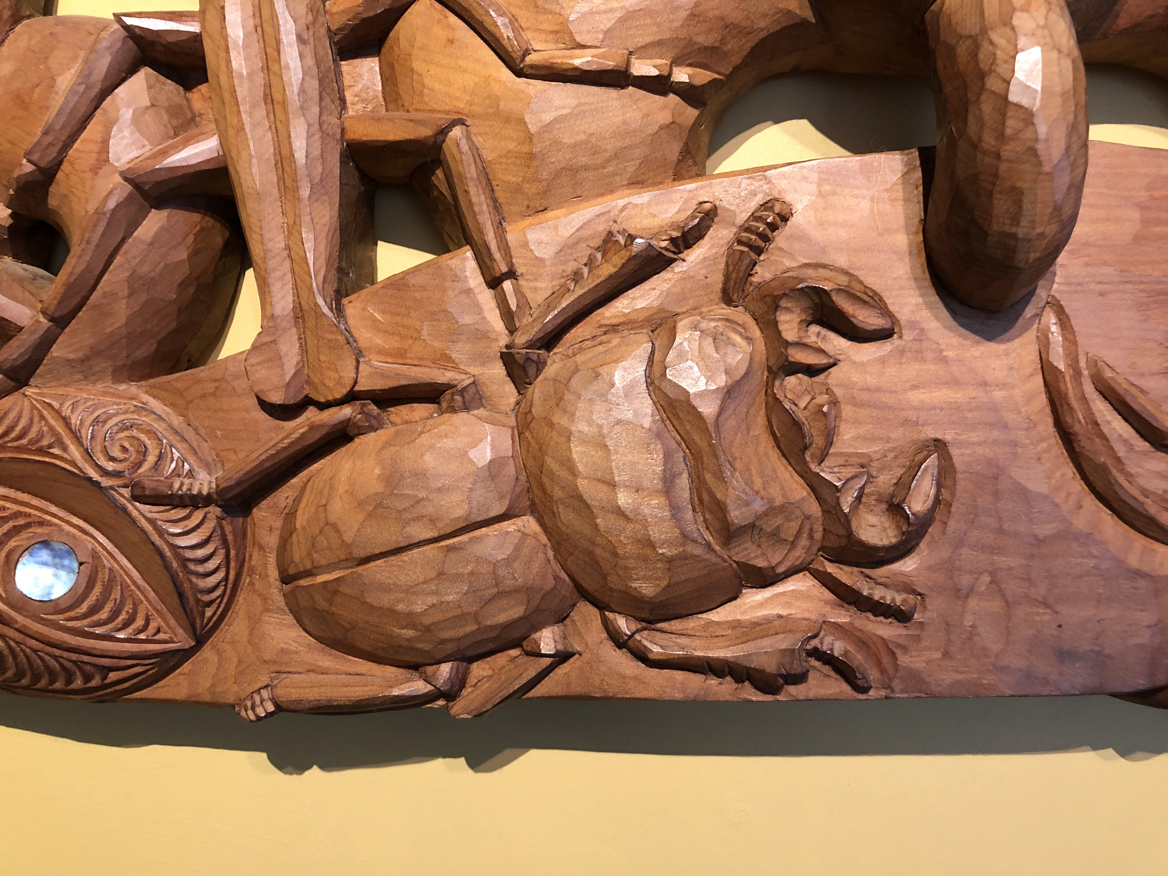 New Zealand Stag Beetle carved by Denis Conway onto a Maori pare, on display at the New Zealand Arthropod Collection at Landcare Research, Auckland.